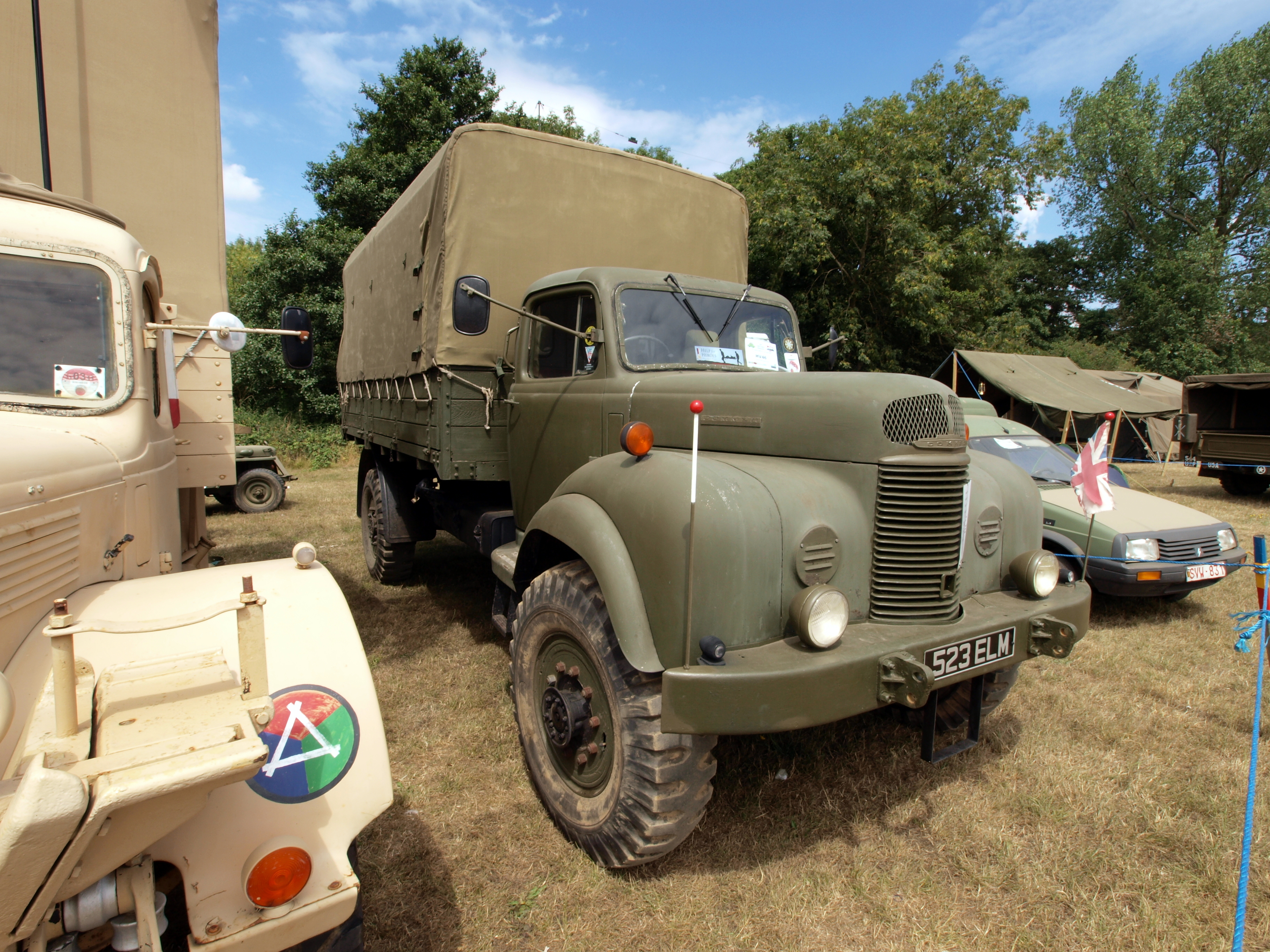 1953 Commer Q4 Cargo truck